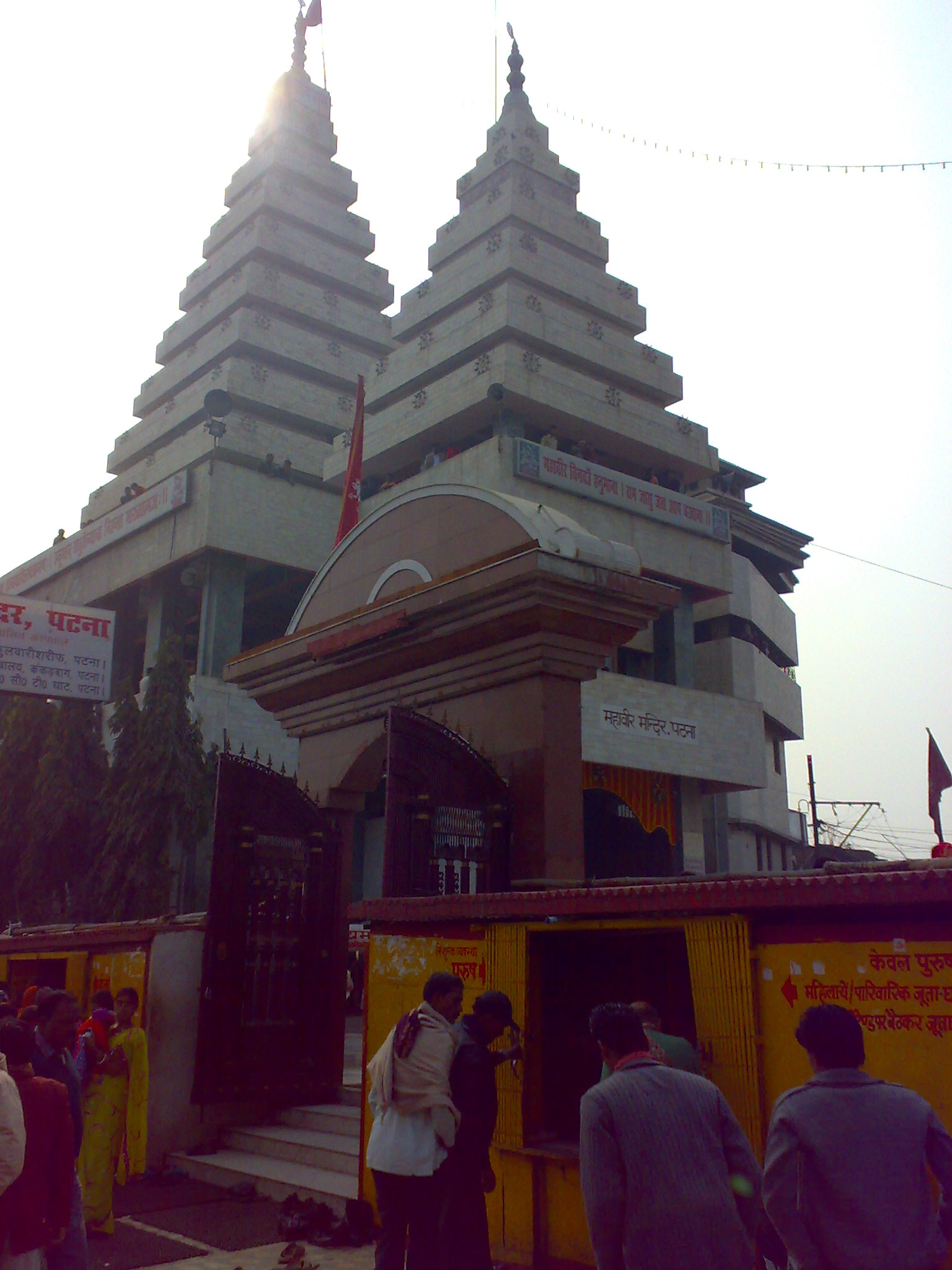 Mahavir Mandir Front Gate and Shoe Stand